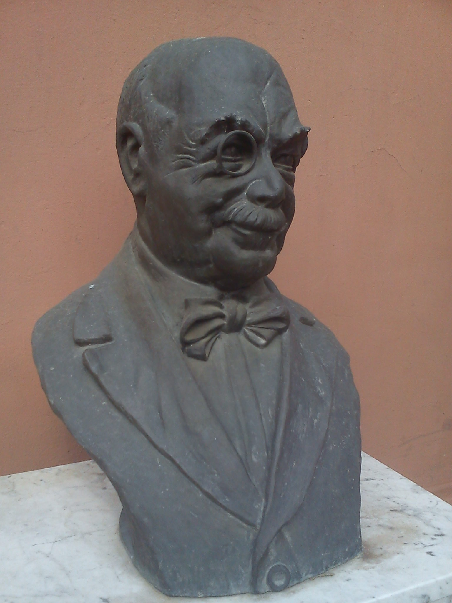 Alexander Roda Roda